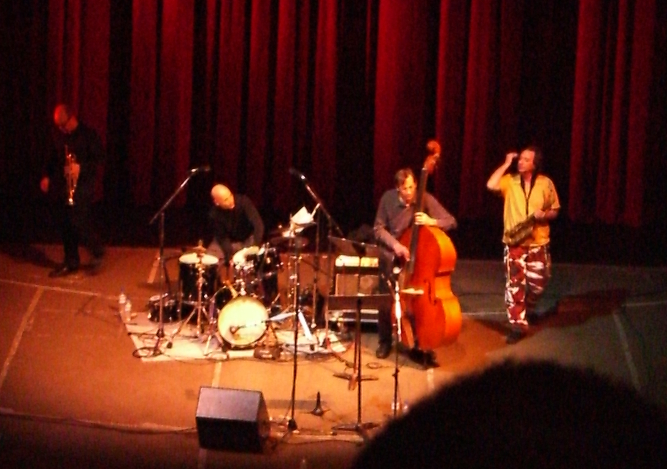 John Zorn and Masada live in Chicago